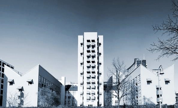 View from south of John Hejduk designed Kreuzberg Tower, Berlin. Completed in 1988.